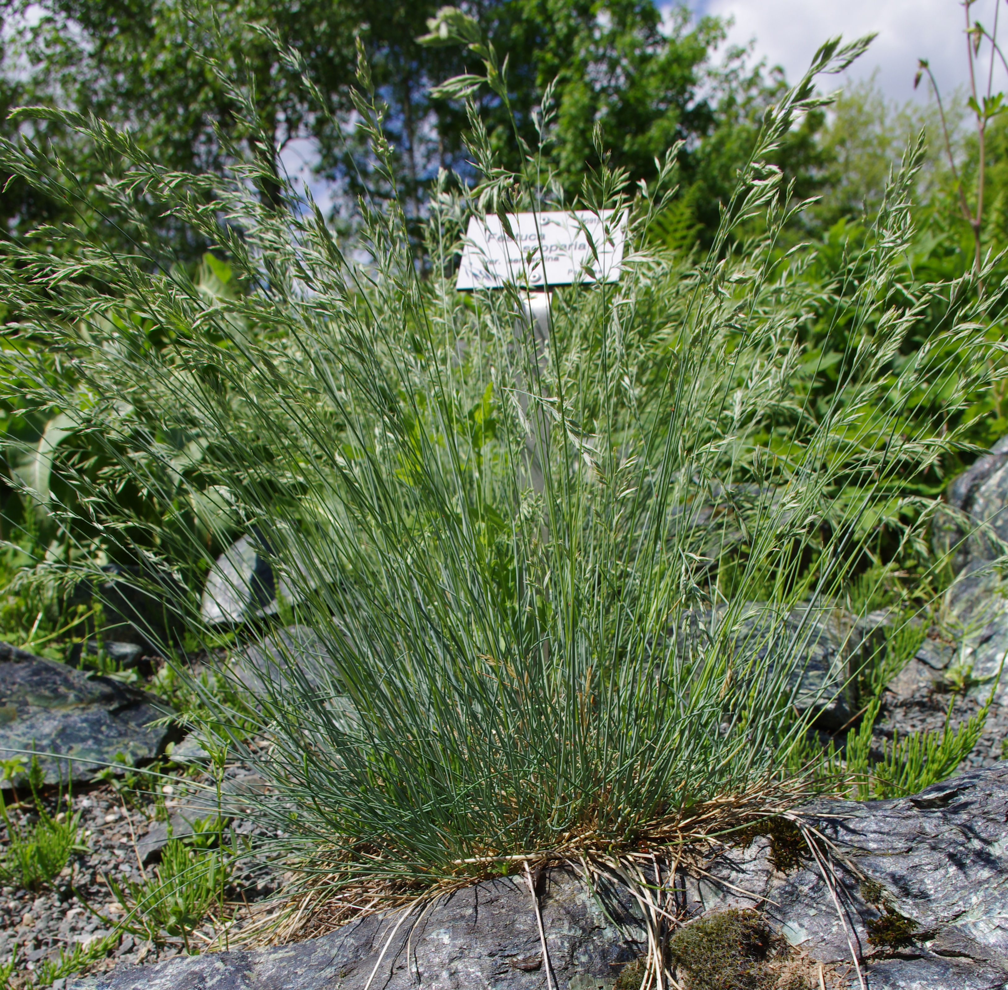 Festuca scoparia var. serpentina at the ÖBG Bayreuth